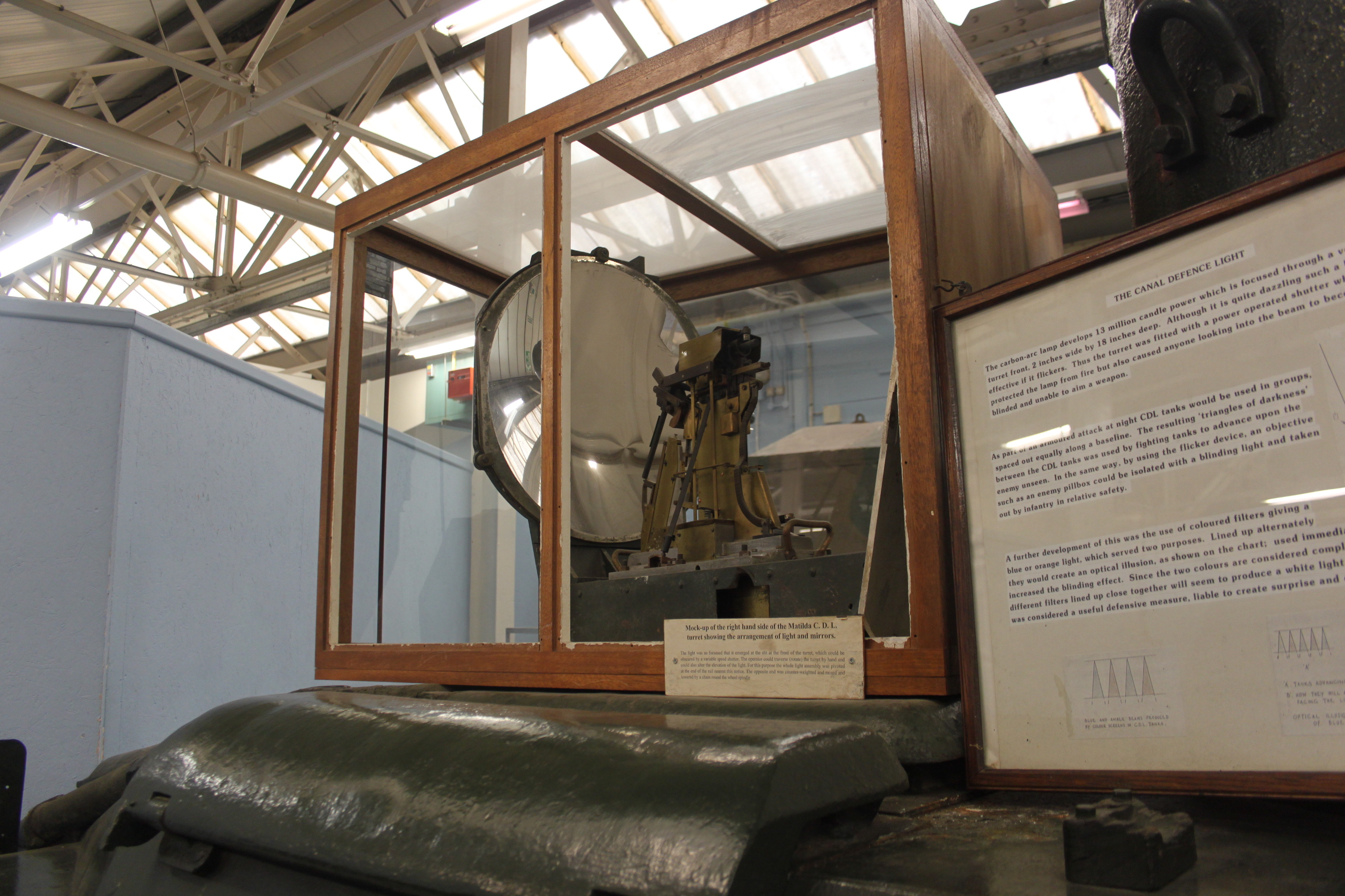 Canal Defence Light at the Tank Museum